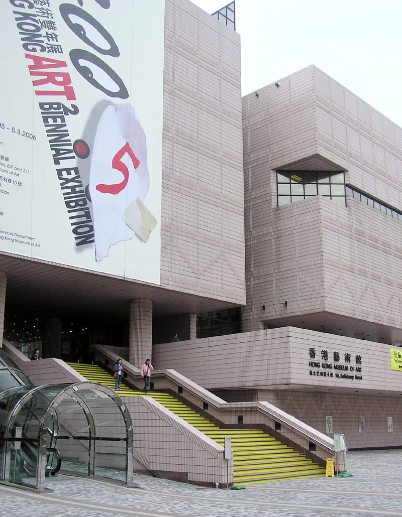 Hong Kong Museum of Art at 10 Salisbury Road, Tsim Sha Tsui, Kowloon, Hong Kong. The photograph was taken by Alan Mak in December, 2005.